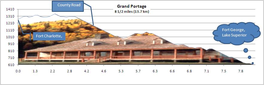 Grand Portage of the Pigeon River, Minnesota, Grand Portage National Monument, Minnesota